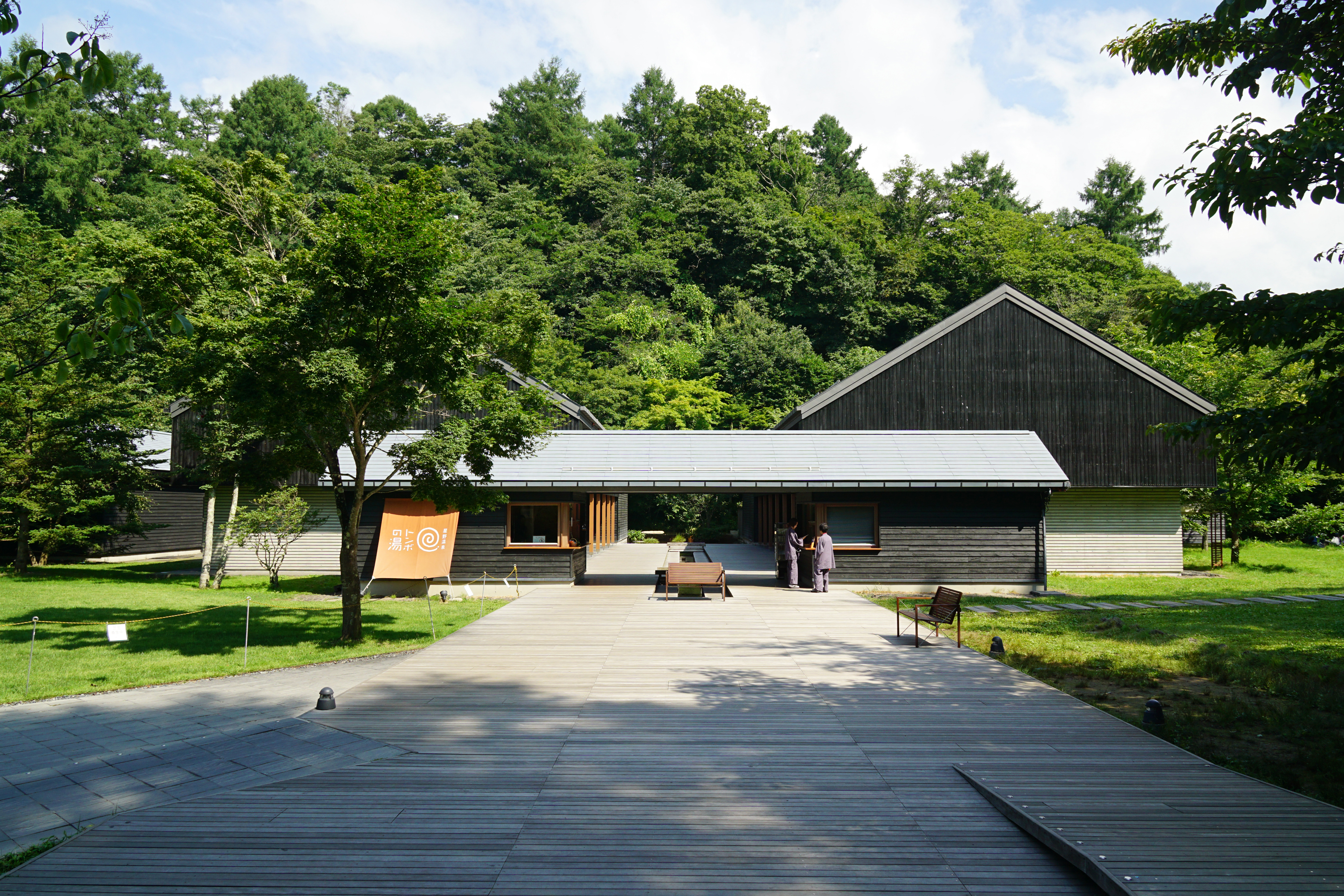 Hoshino Onsen in Karuizawa, Nagano prefecture, Japan.